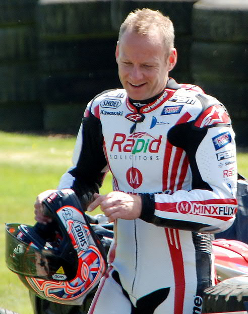 Shane Byrne at Oulton Park British Superbike meeting in 2013